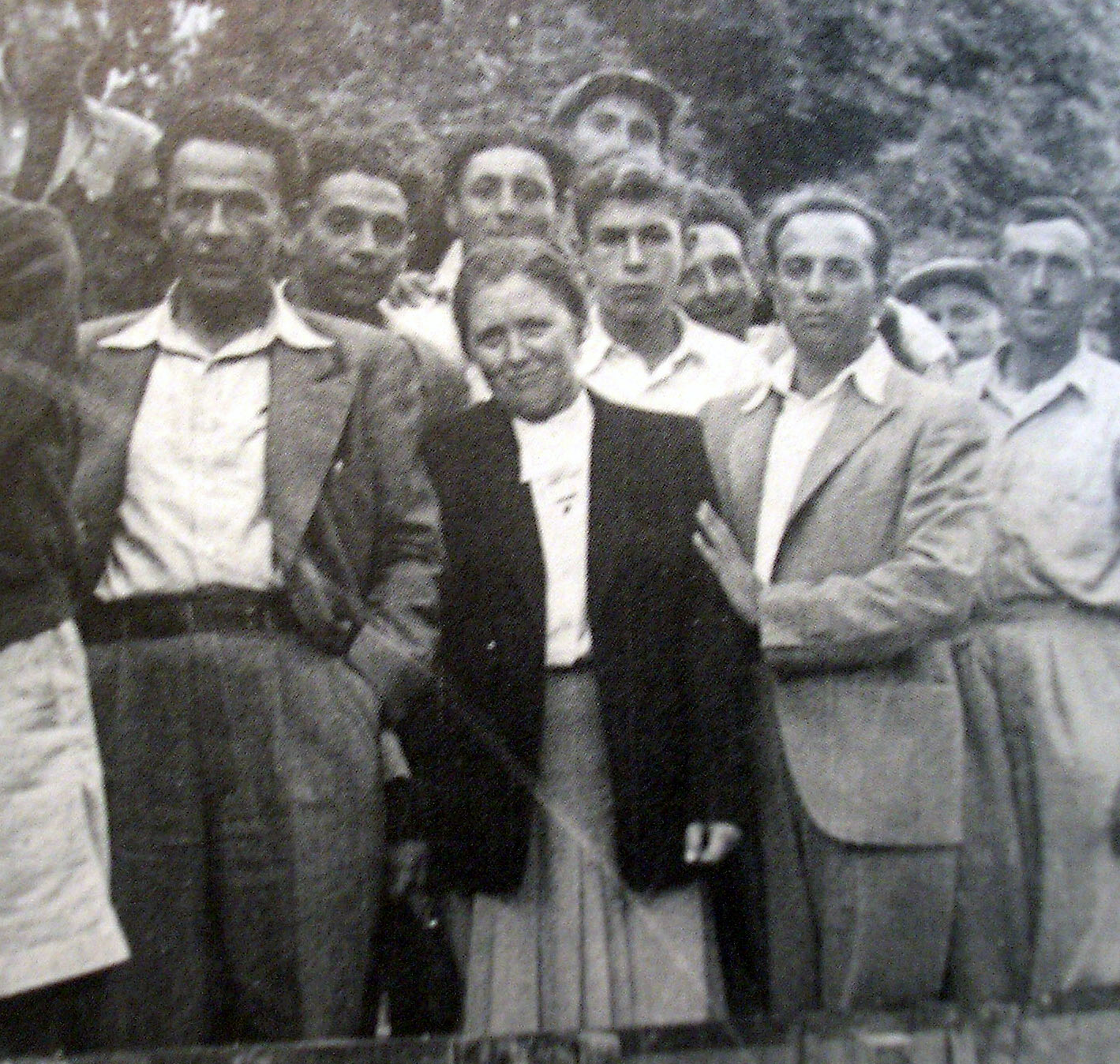 Abba and Hanna Hushi en route to a protest against the White Paper of 1939